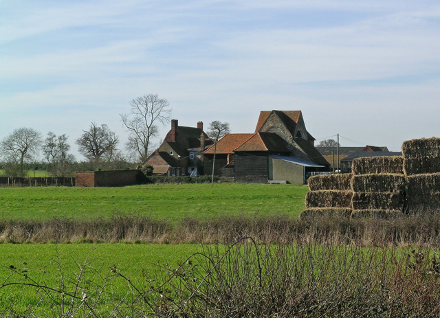 Latton Priory taken from the Rundells footpath Here's a closer view of Latton Priory taken from the footpath of Rundells, off the B1393. It may look scenic, but the M11 is very close by and so is the noise from the traffic.